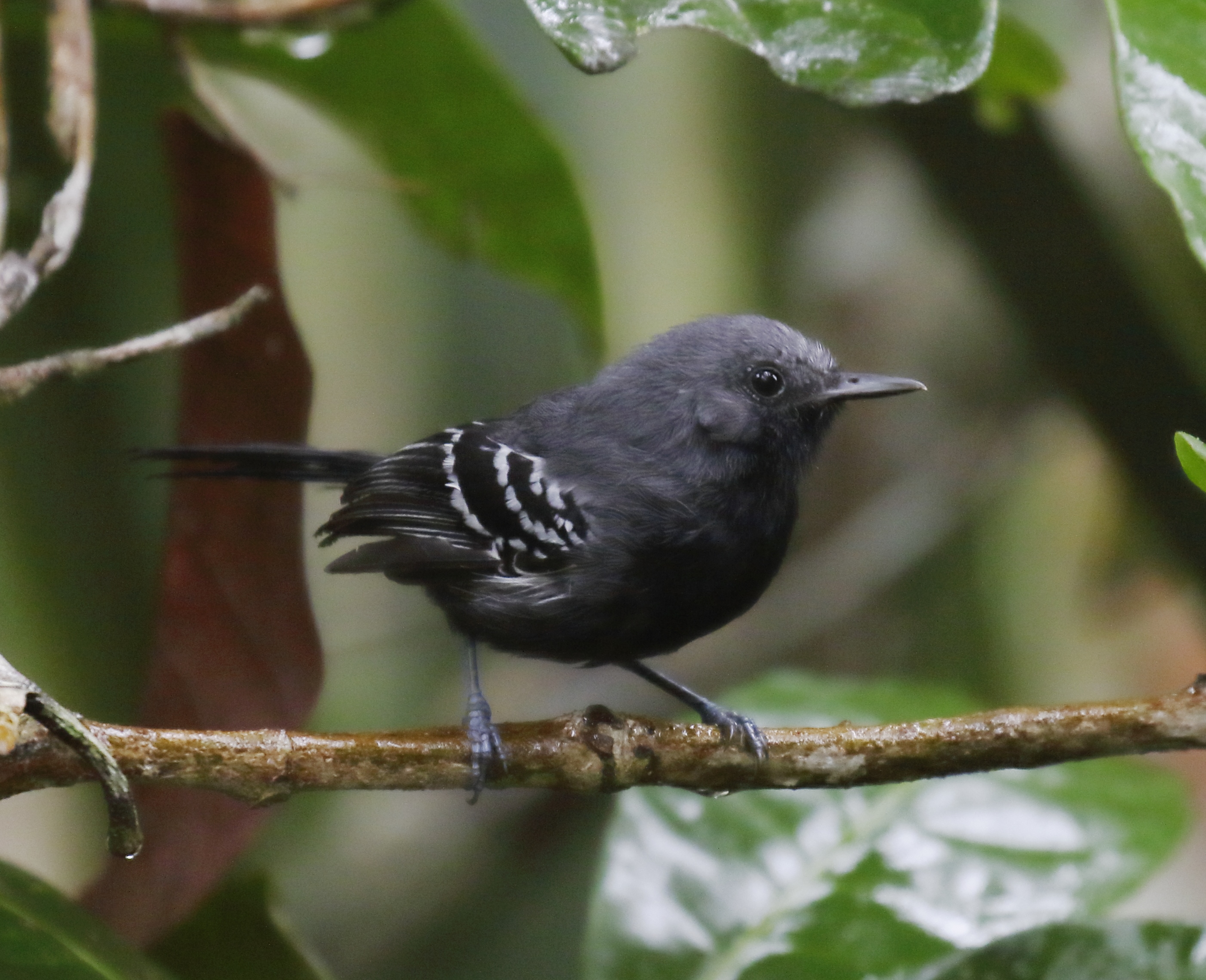 Narrow-billed antwren (male) at Boa Nova, Bahia, Brazil